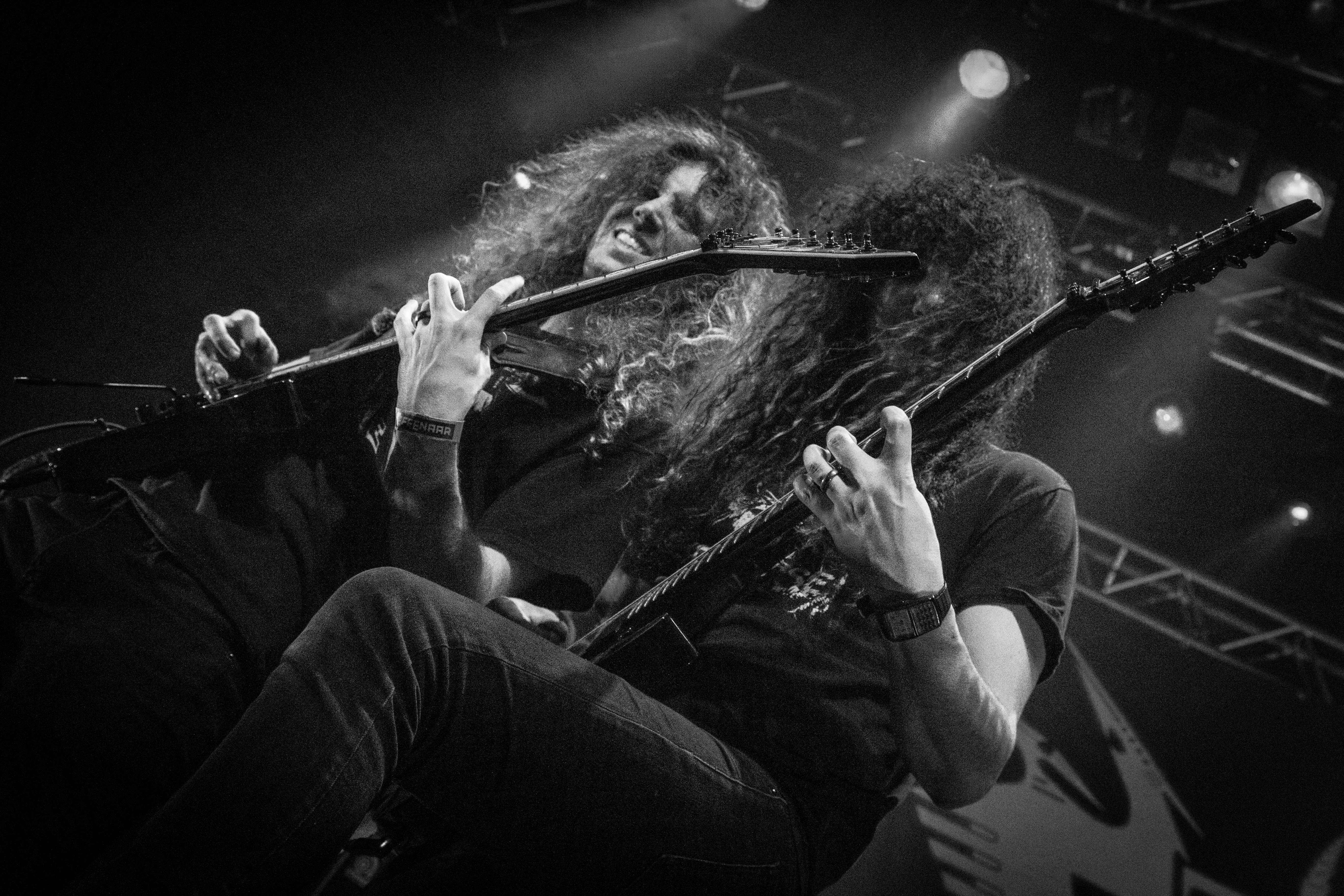 Vektor performing live at Metal Meeting 2015, Eindhoven, Netherlands